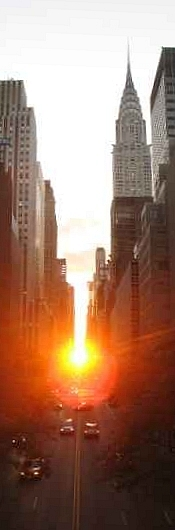 Manhattanhenge from 42nd Street shot at 8:23 p.m. on July 13, 2006 (the exif shows 7:23 since my camera did not change with Daylight Savings Time. The building on the right is the Chrysler Building. I am uploading a low resolution photo. Photo by Roger Rowlett.